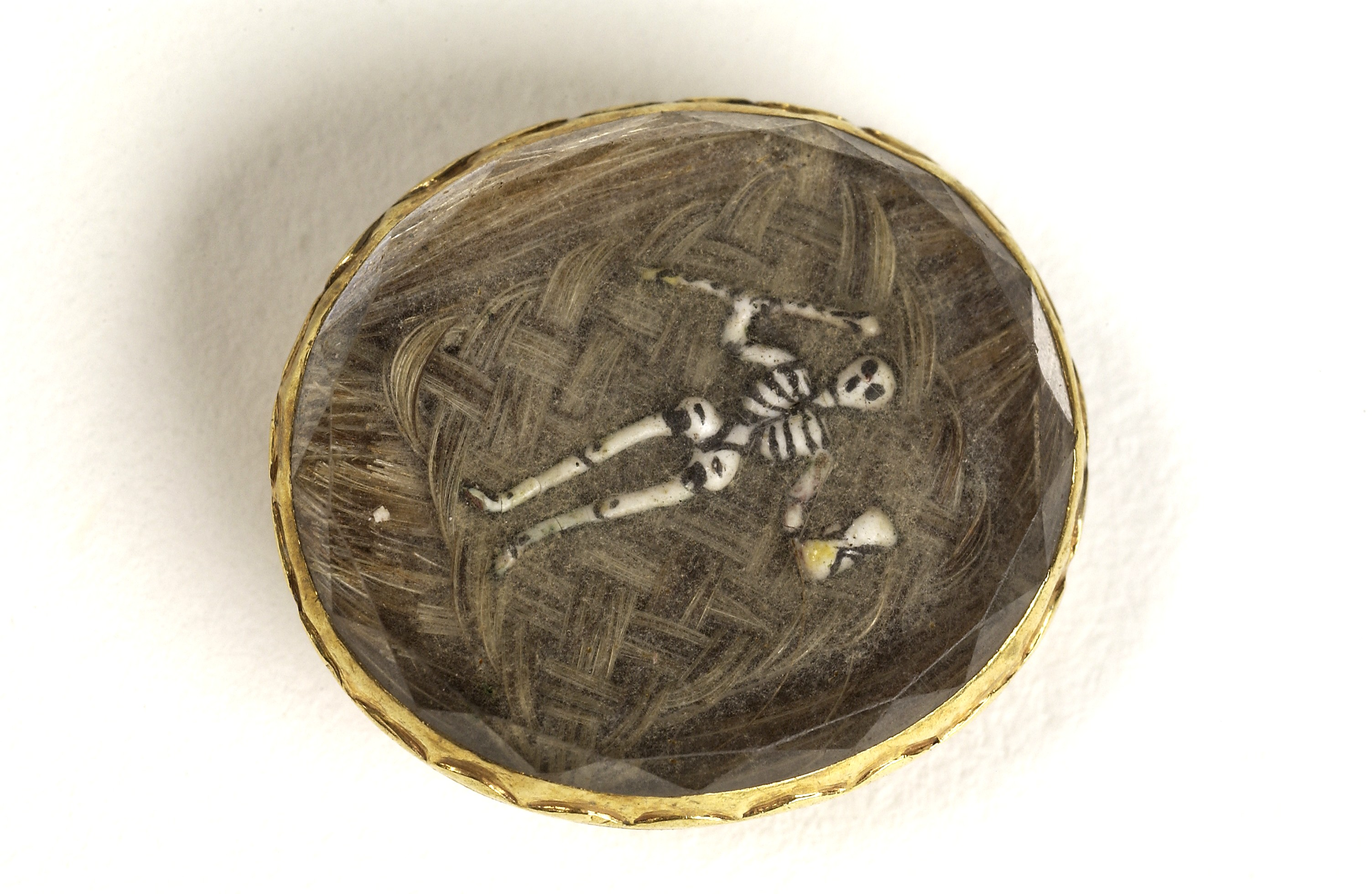 Mourning brooche containing the hair of a deceased relative and a skelton. Wellcome Images Keywords: Victorian; Death; Jewellery; British